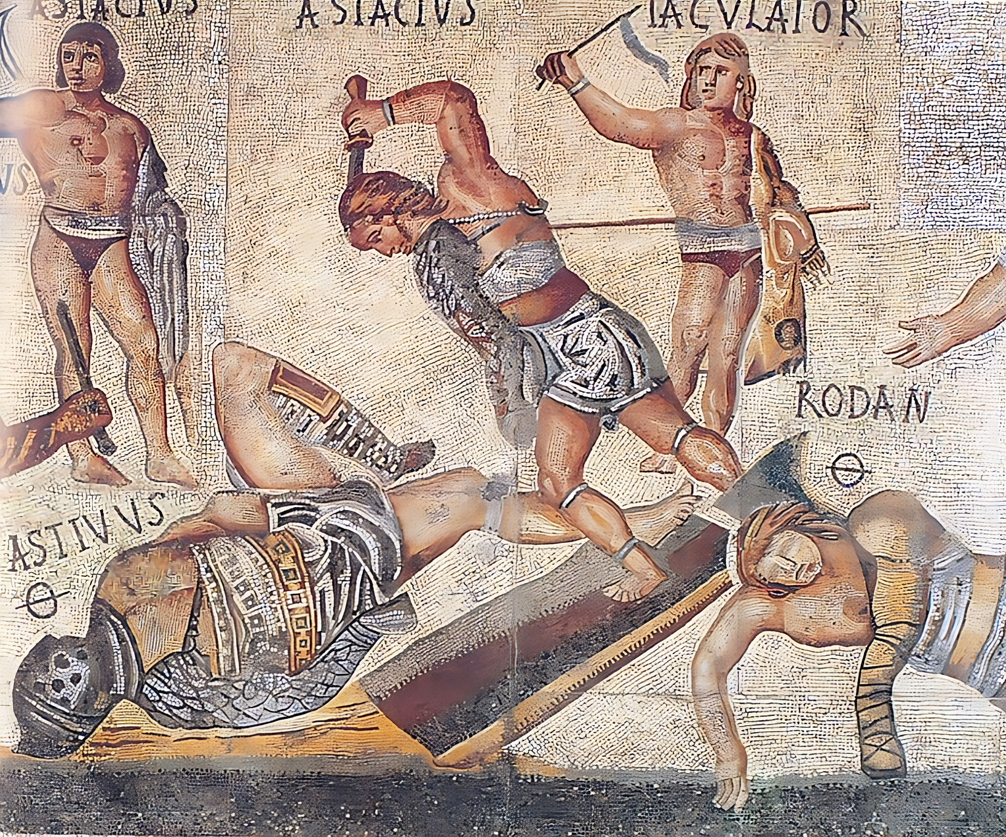 A retiarius attacks his downed opponent, a secutor, with a dagger in this scene from a mosaic from the Villa Borghese.